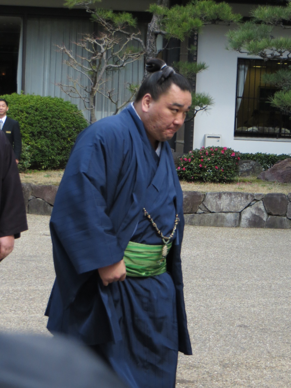 Harumafuji Kōhei in Sumiyoshi taisha.